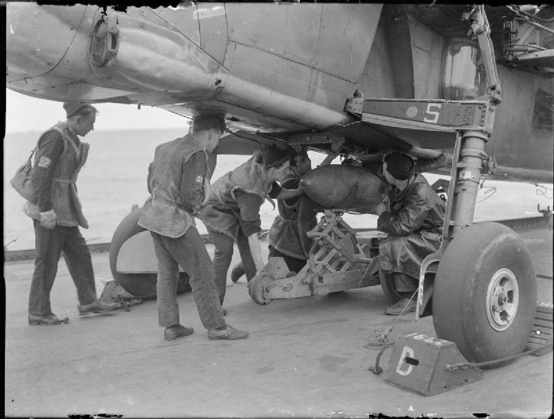 The Royal Navy during the Second World War On board HMS FURIOUS a Fairey Barracuda of 827 Squadron, Fleet Air Arm being bombed up for a strike on the TIRPITZ and enemy positions.